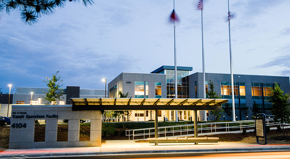 GoRaleigh Operational Facility